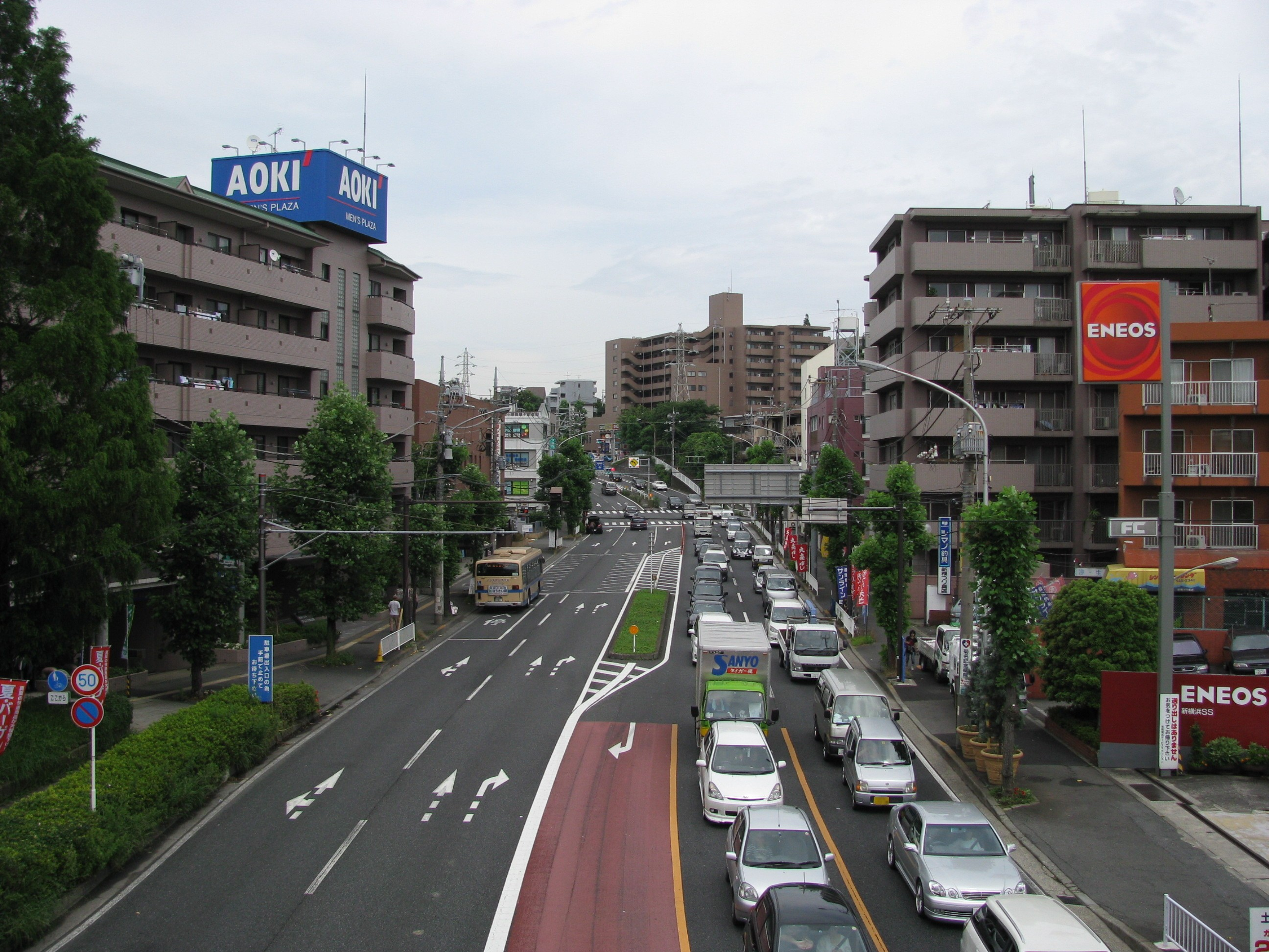 The Yokohama Route 17. This located is in Kōhoku, Yokohama, Kanagawa, Japan.